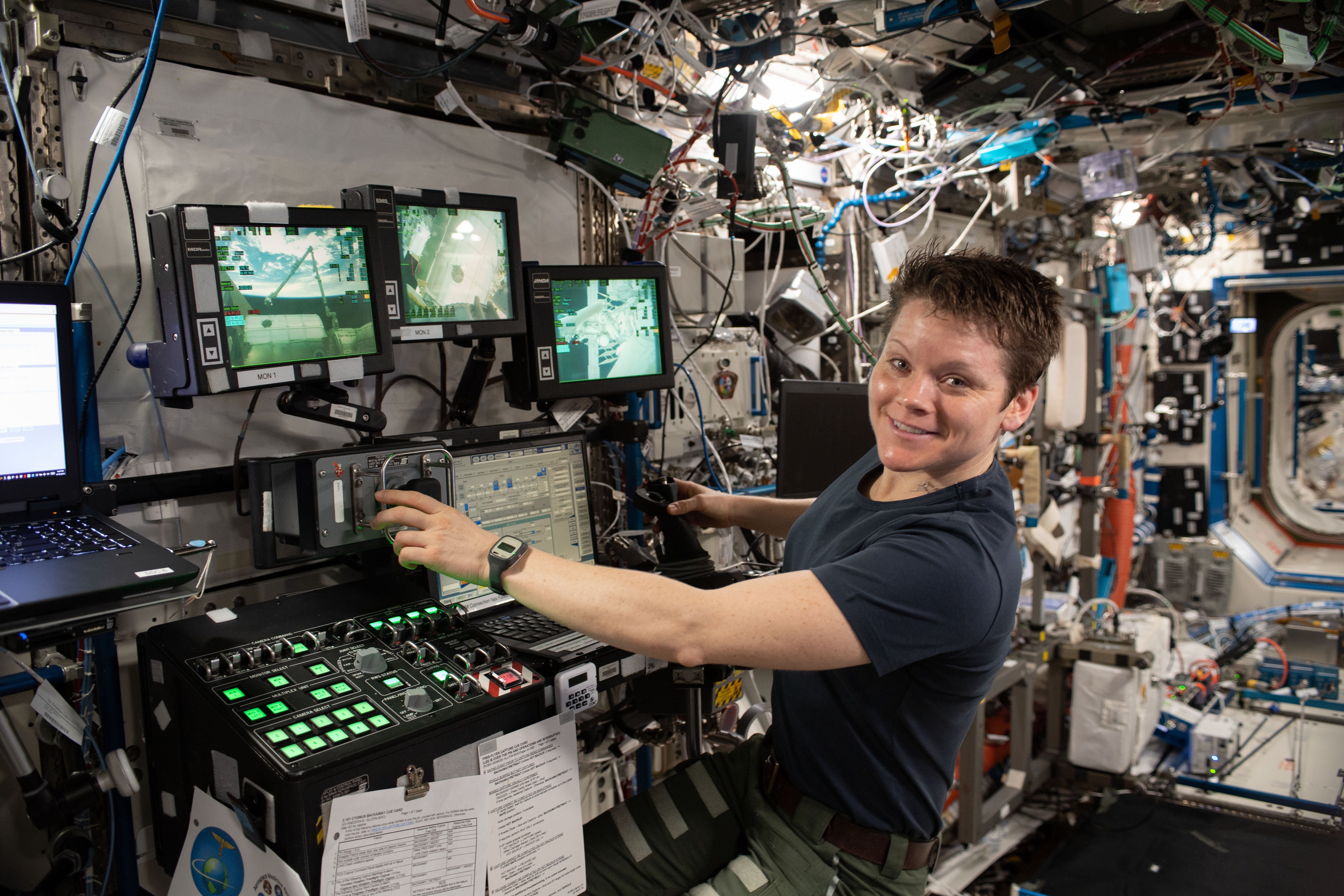 Expedition 59 Flight Engineer Anne McClain of NASA uses the robotics workstation inside the U.S. Destiny laboratory module to practice Canadarm2 robotics maneuvers and Cygnus spacecraft capture techniques.